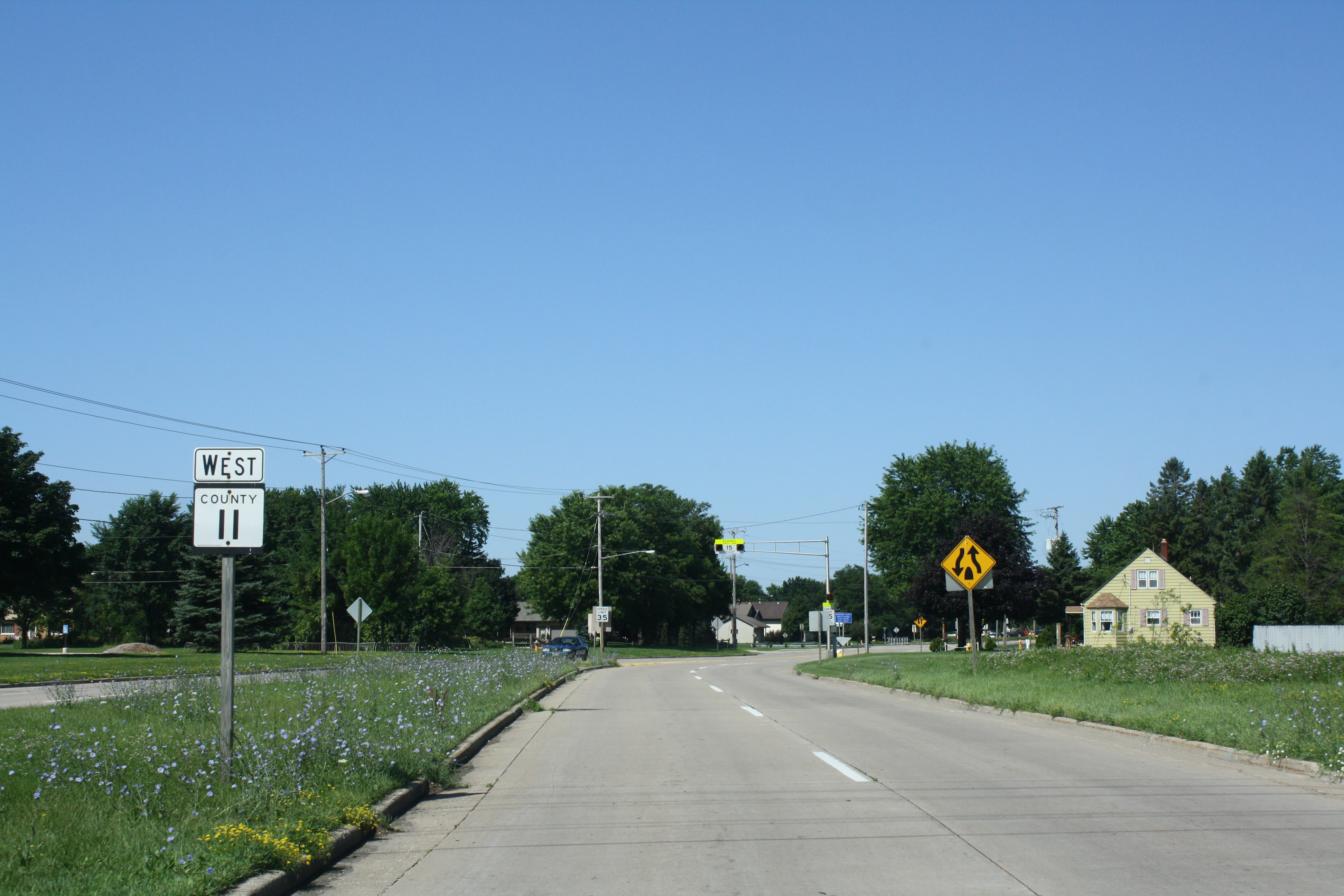 Looking west at County II, formerly Wisconsin Highway 150.